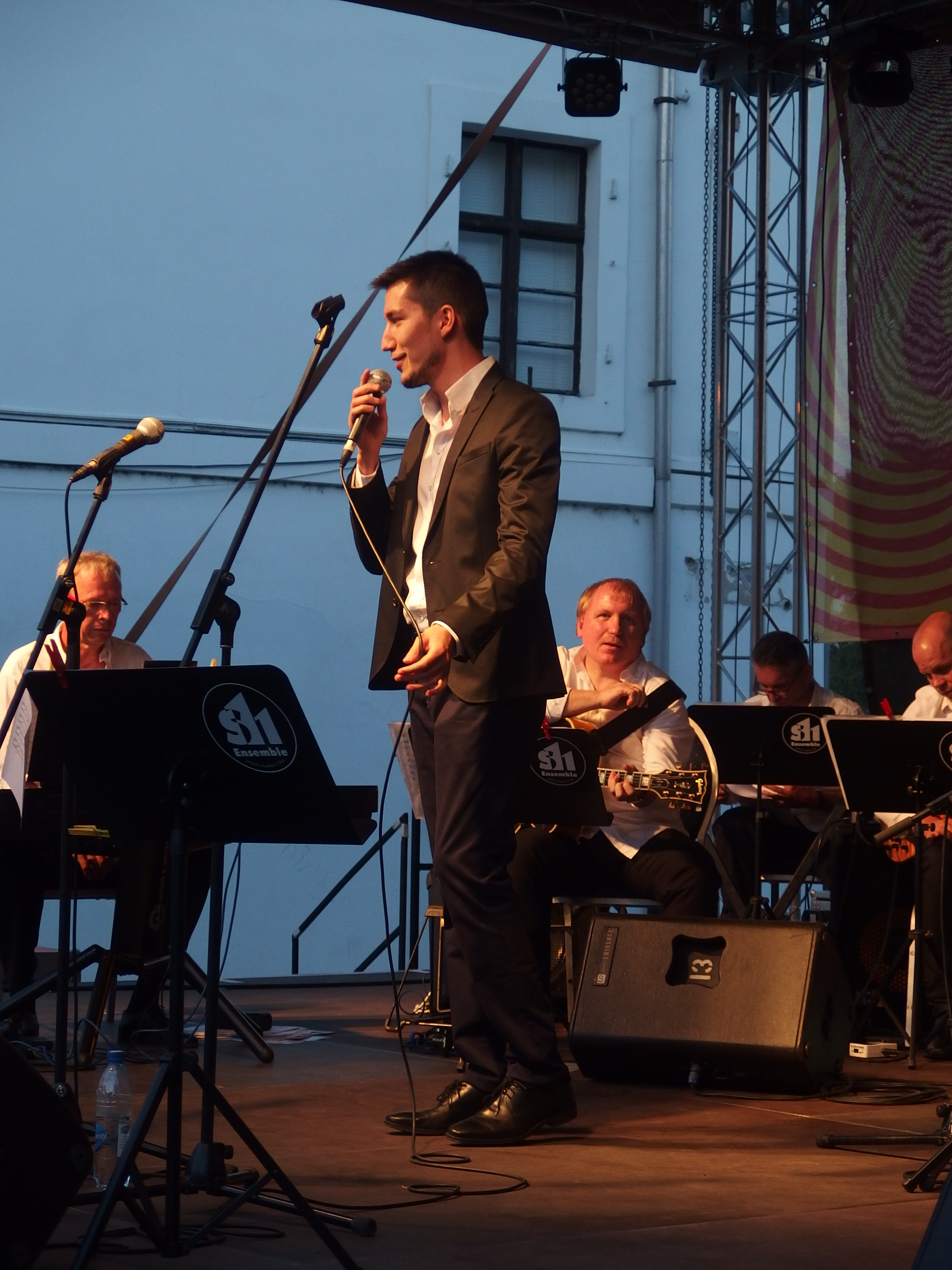 Pál Dénes, hungarian singer